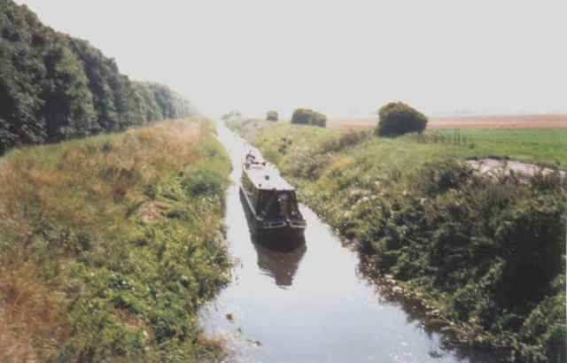 The Forty-Foot Drain on the Middle Level Navigation